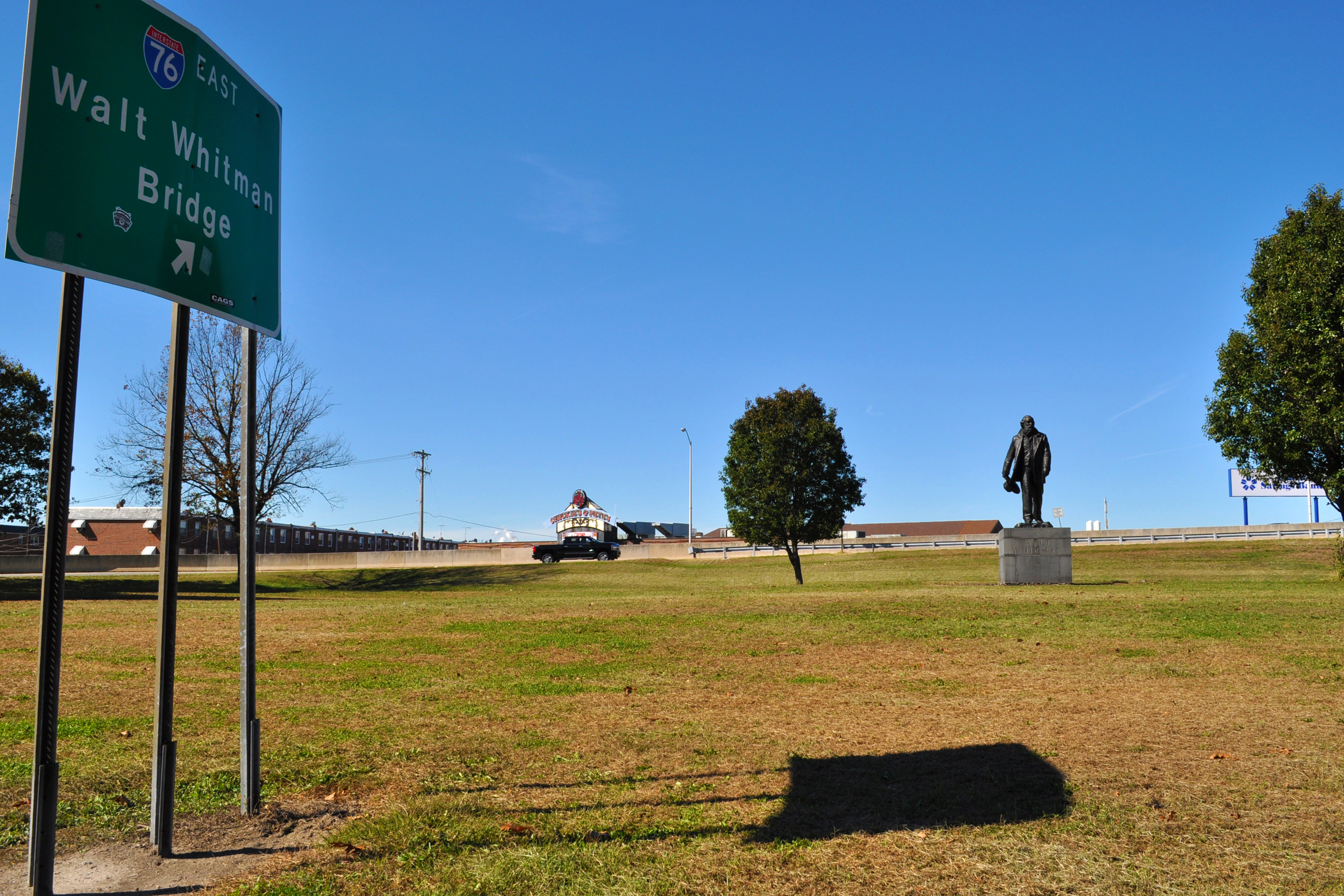 Walt Whitman Monument at the Walt Whitman Bridge Entrance - 3100 S Broad St, Philadelphia PA